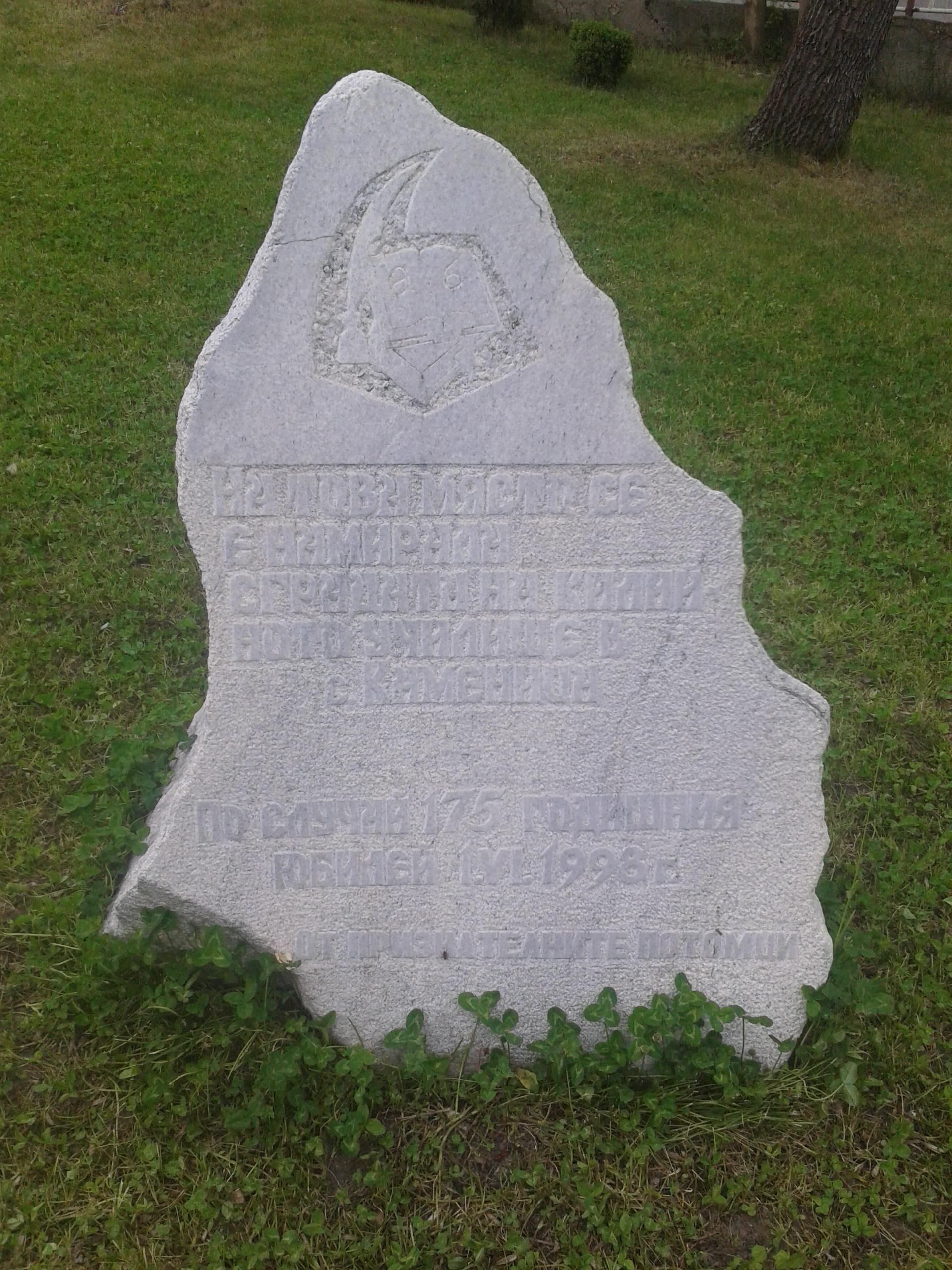 Kamenitsa Holy Trinity Church School Monument